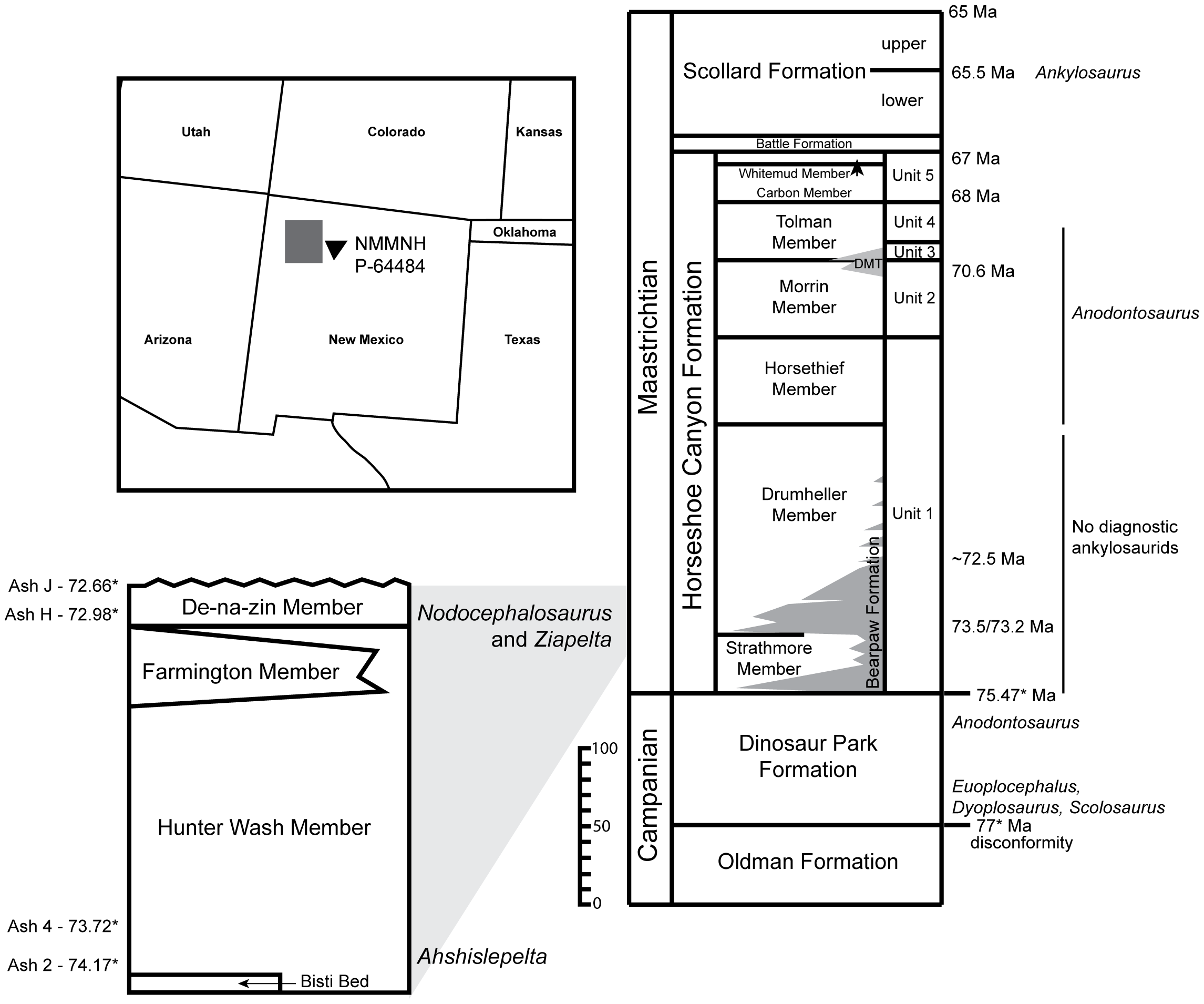 Locality map, San Juan Basin, New Mexico, southwest USA. Stratigraphic position of Ziapelta sanjuanensis, gen. et sp. nov., in the De-na-zin Member, Kirtland Formation, and comparison with the stratigraphic positions of other ankylosaurids in New Mexico and Alberta. Alberta stratigraphic column modified from Eberth and Braman. Dates with asterisks represented revised dates from Roberts et al..